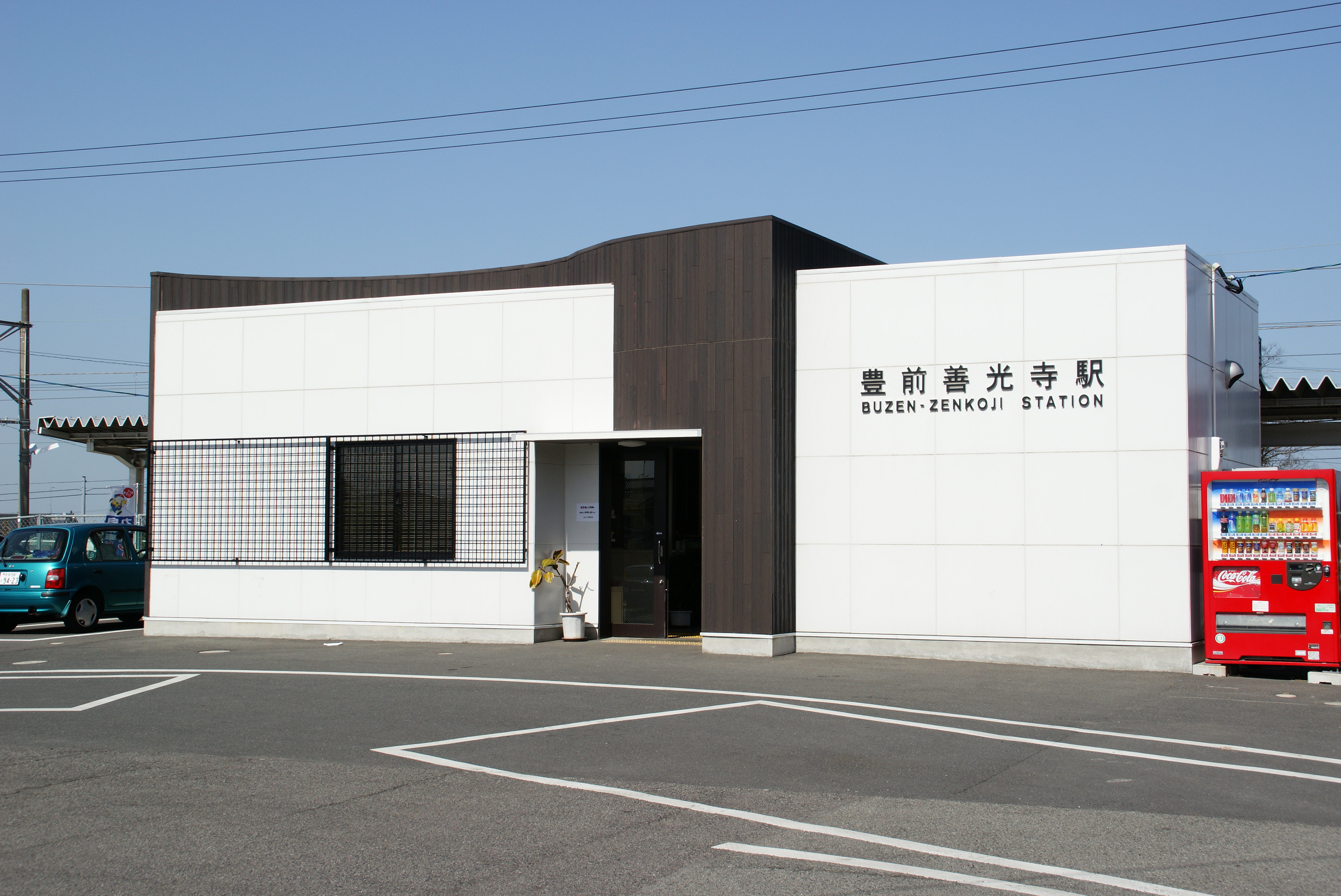 Kyushu Railway, Buzen-Zenkoji Station.(Usa City, Oita Prefecture, Japan)